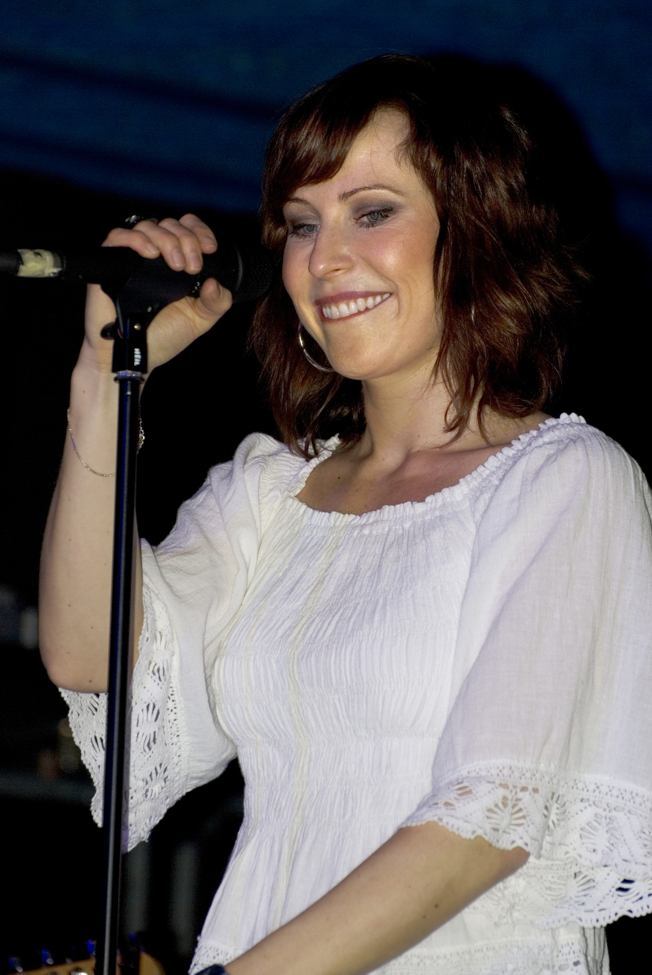 Silje Wergeland, singer of The Gathering. Budapest concert, 31 January 2010.